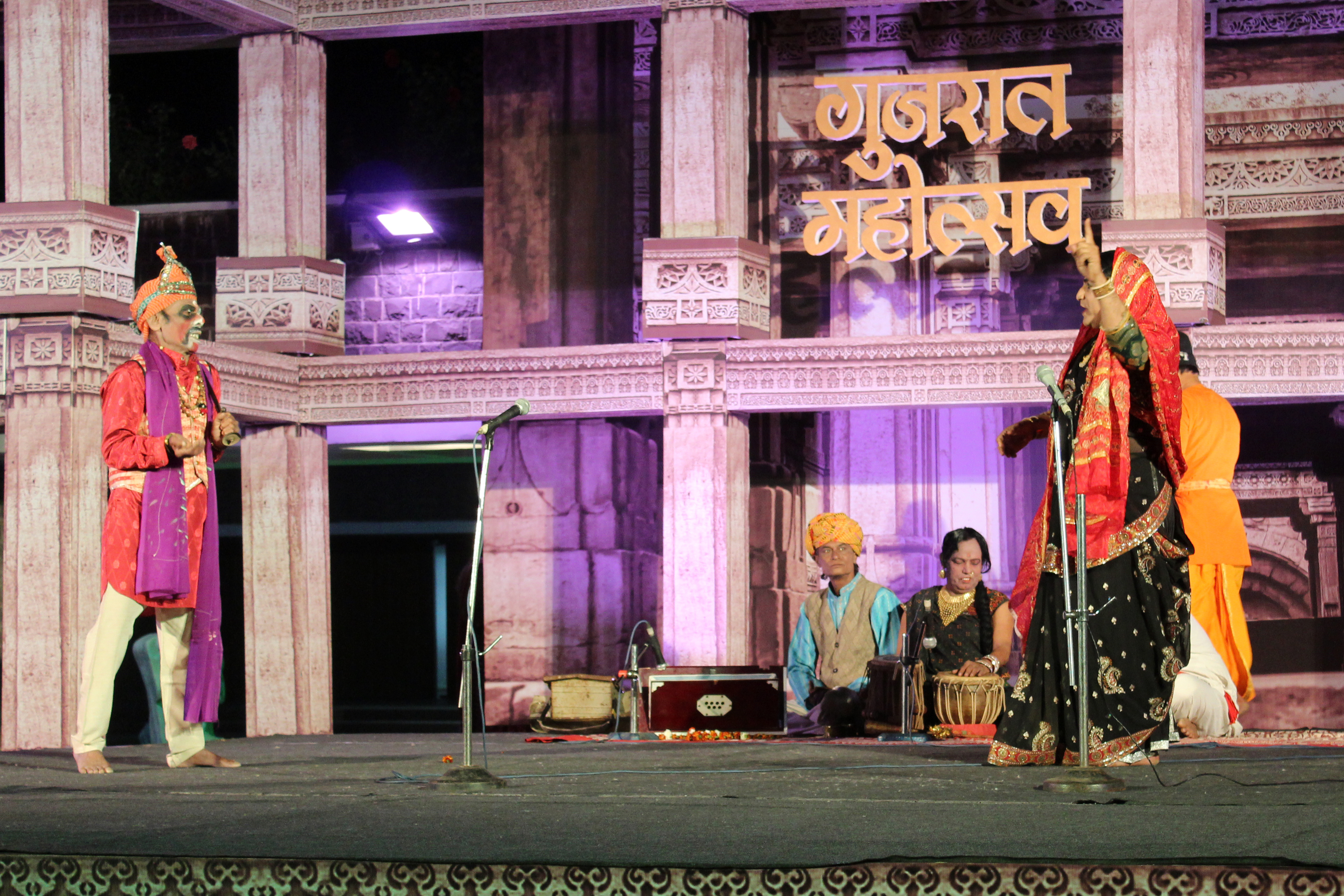 Bhavai, also known as Vesha or Swang, is a popular folk theatre form of western India, especially in Gujarat.